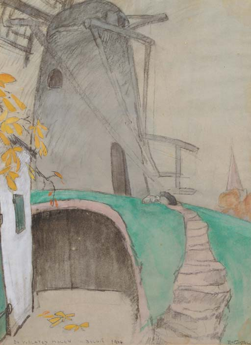 De verlaten molen in België (Abandoned mill in Belgium). Signed Leo Gestel, dated 1914 and inscribed with title. Black crayon, watercolour and pastel on paper; 48 x 36 cm